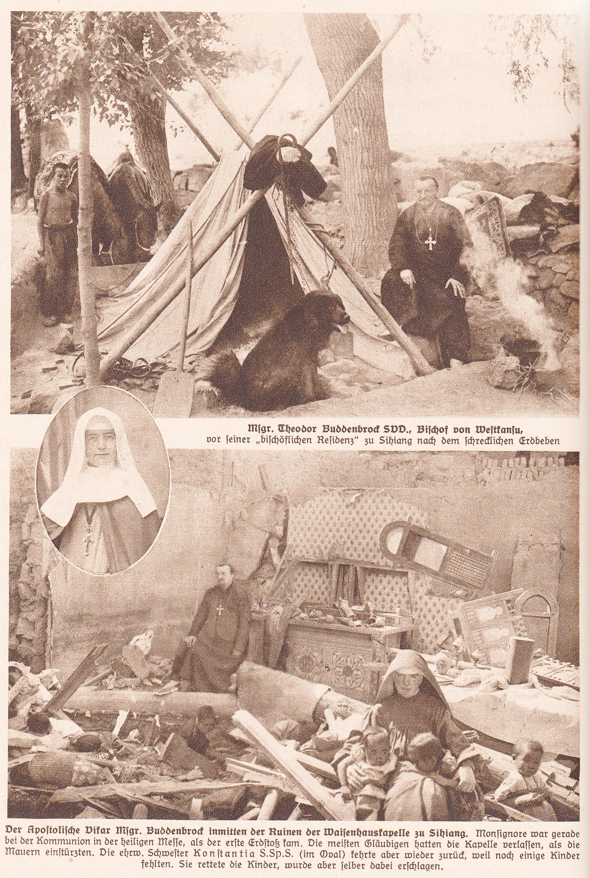 From the Catholic magazine StadtGottes 1927